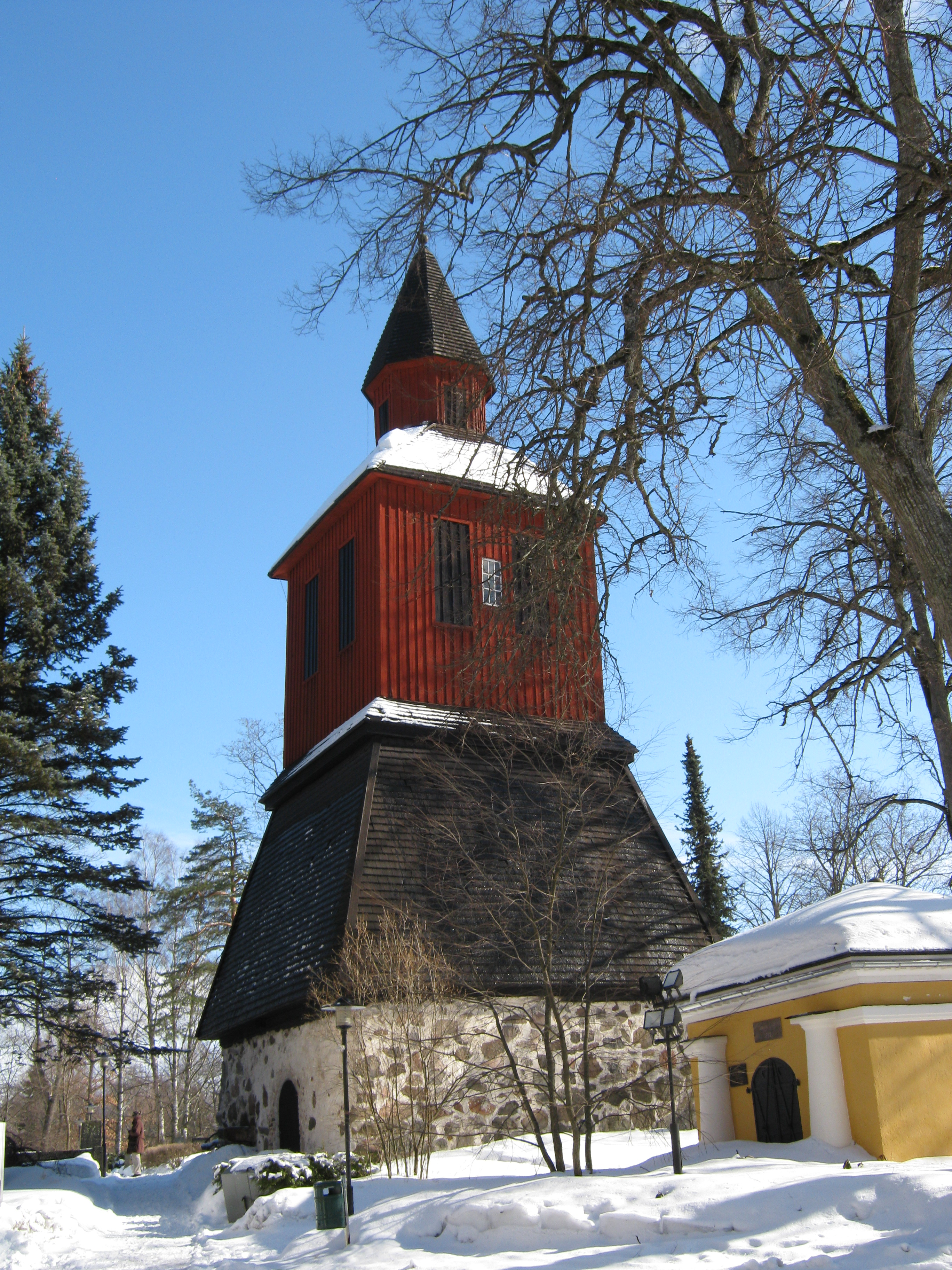 Bell tower of St.Lawrence's Church, Lohja, Finland.